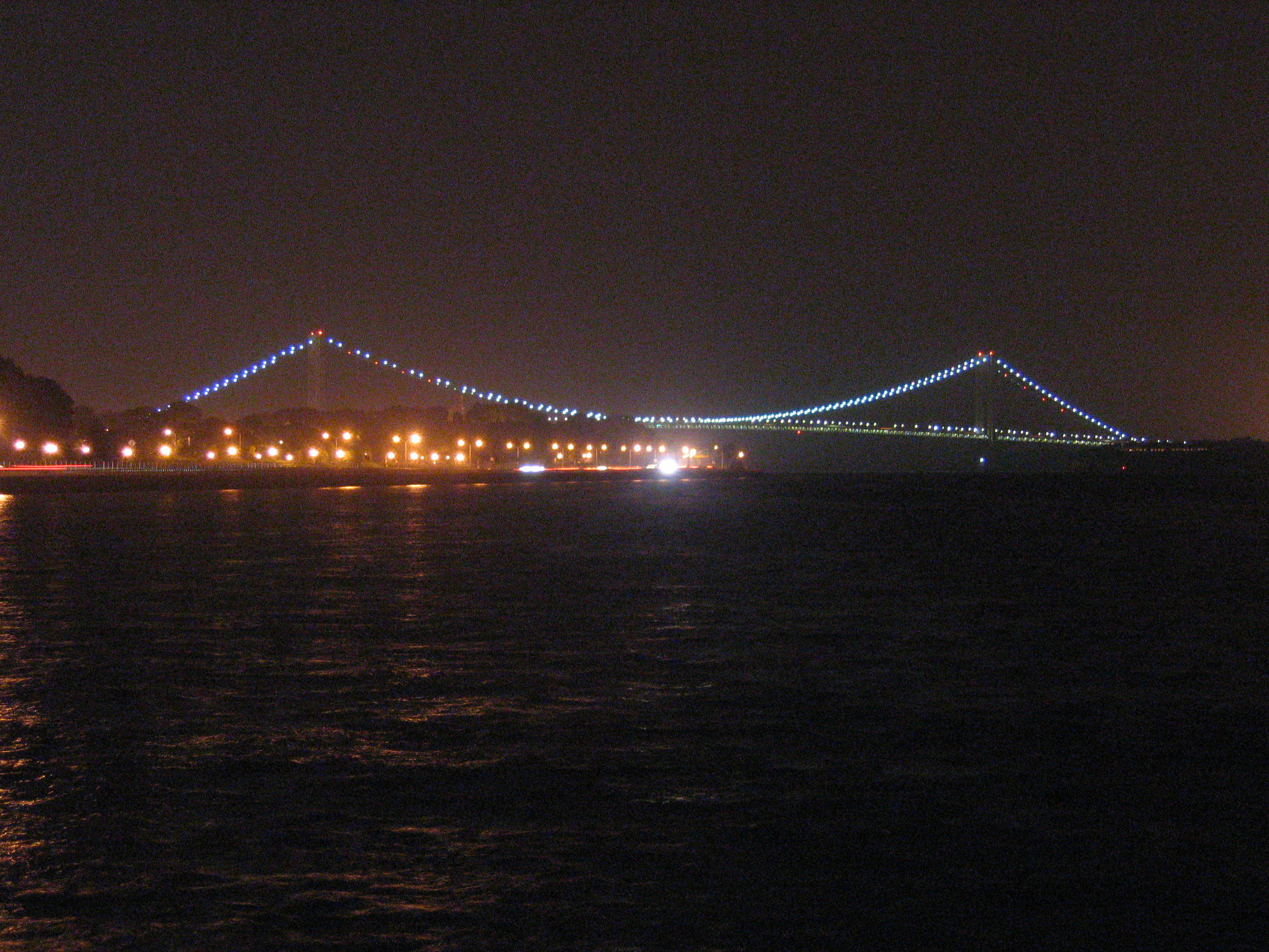 As seen from the bay ridge avenue. (Author: Amr Fayez)